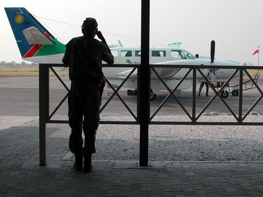 An Air Namibia airplane at Ondangwa, northern Namibia.